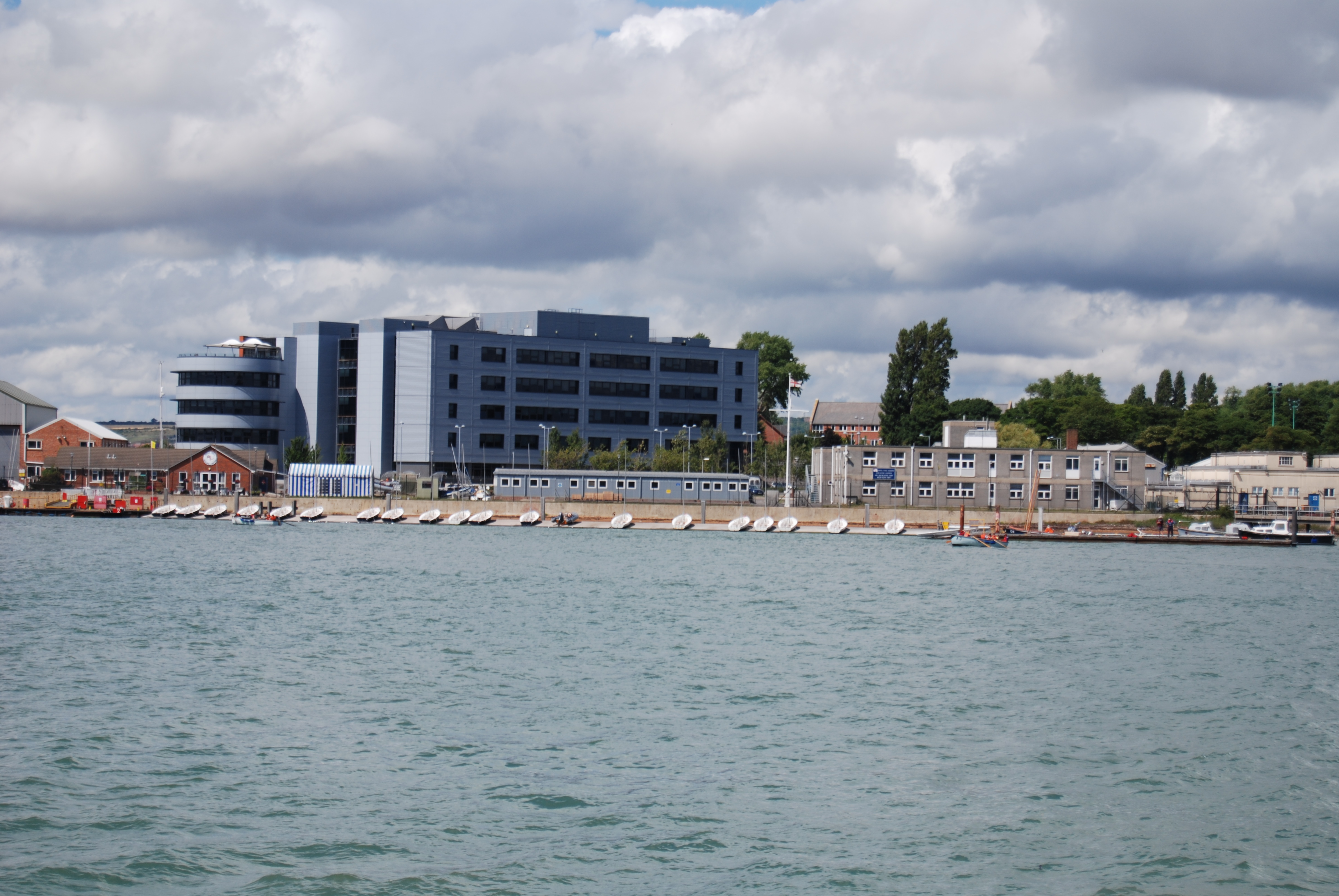 Navy Command HQ at HMS Excellent, Whale Island, with HMS King Alfred in the foreground. Taken from a harbour tour boat, also on Panoramio